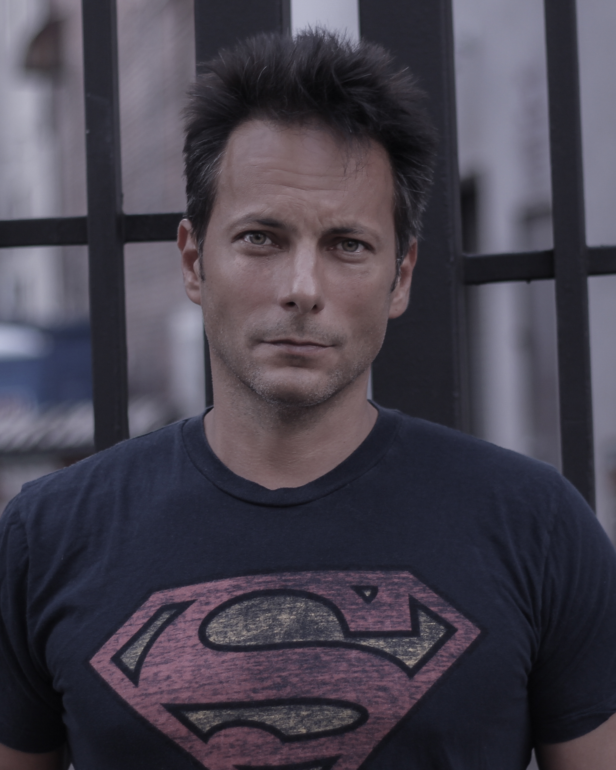 Allan Steele in Los Angeles in 2013